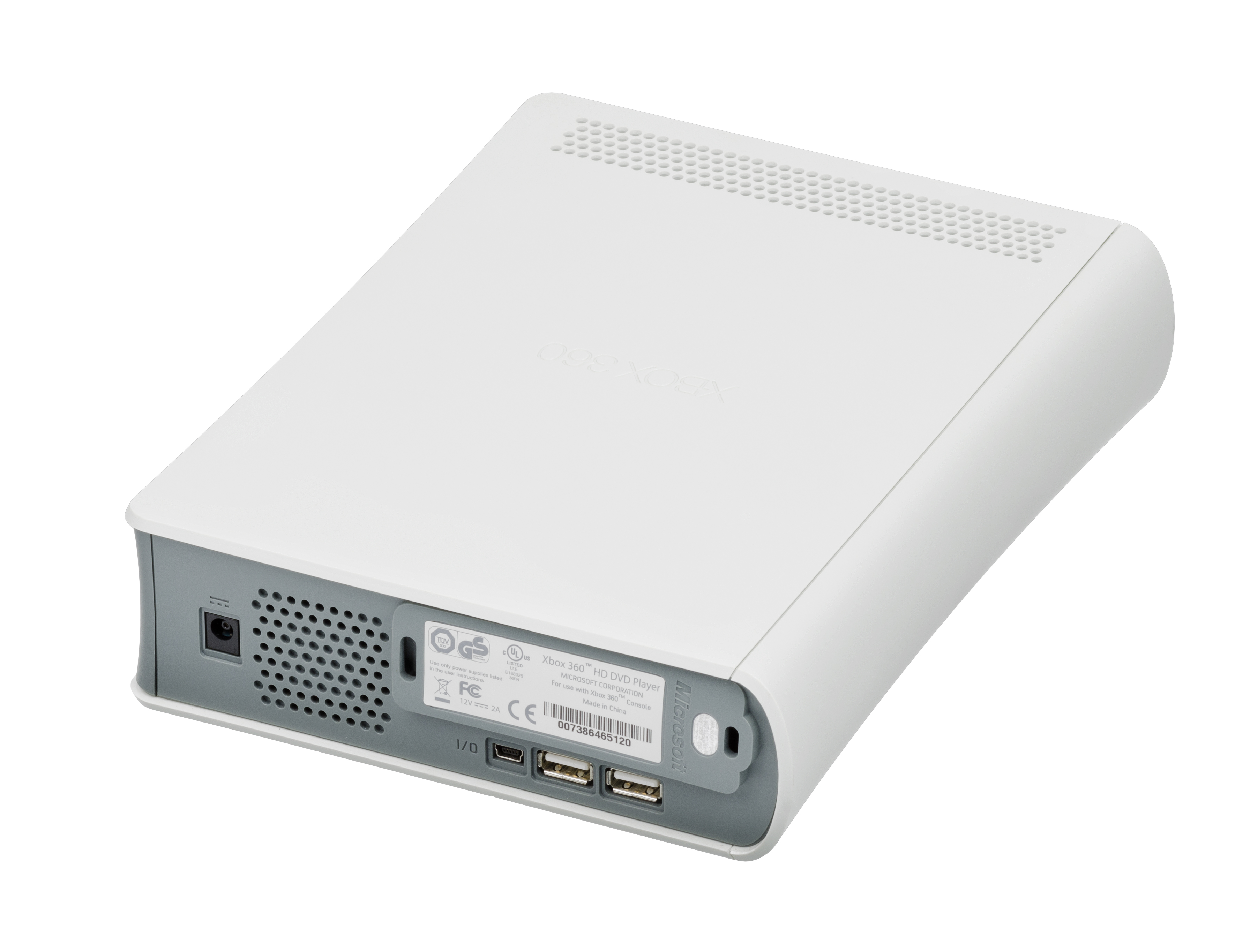 The HD DVD drive for the Xbox 360 video game console, allowing for playback of HD DVD movies on the Xbox 360. The add-on was released in November 2006 at $199, coming with a remote and a copy of the film King Kong on HD DVD. After the failure and discontinuation of the HD DVD format in 2008, remaining stock was liquidated and sold for deep discounts at stores.